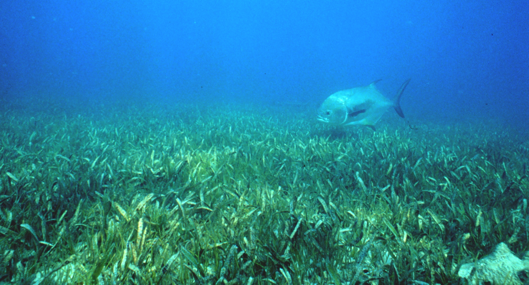 Healthy seagrass with a jack in the background Image ID: sanc0208, Sanctuary Collection Location: Florida Keys National Marine Sanctuary Photographer: Heather Dine